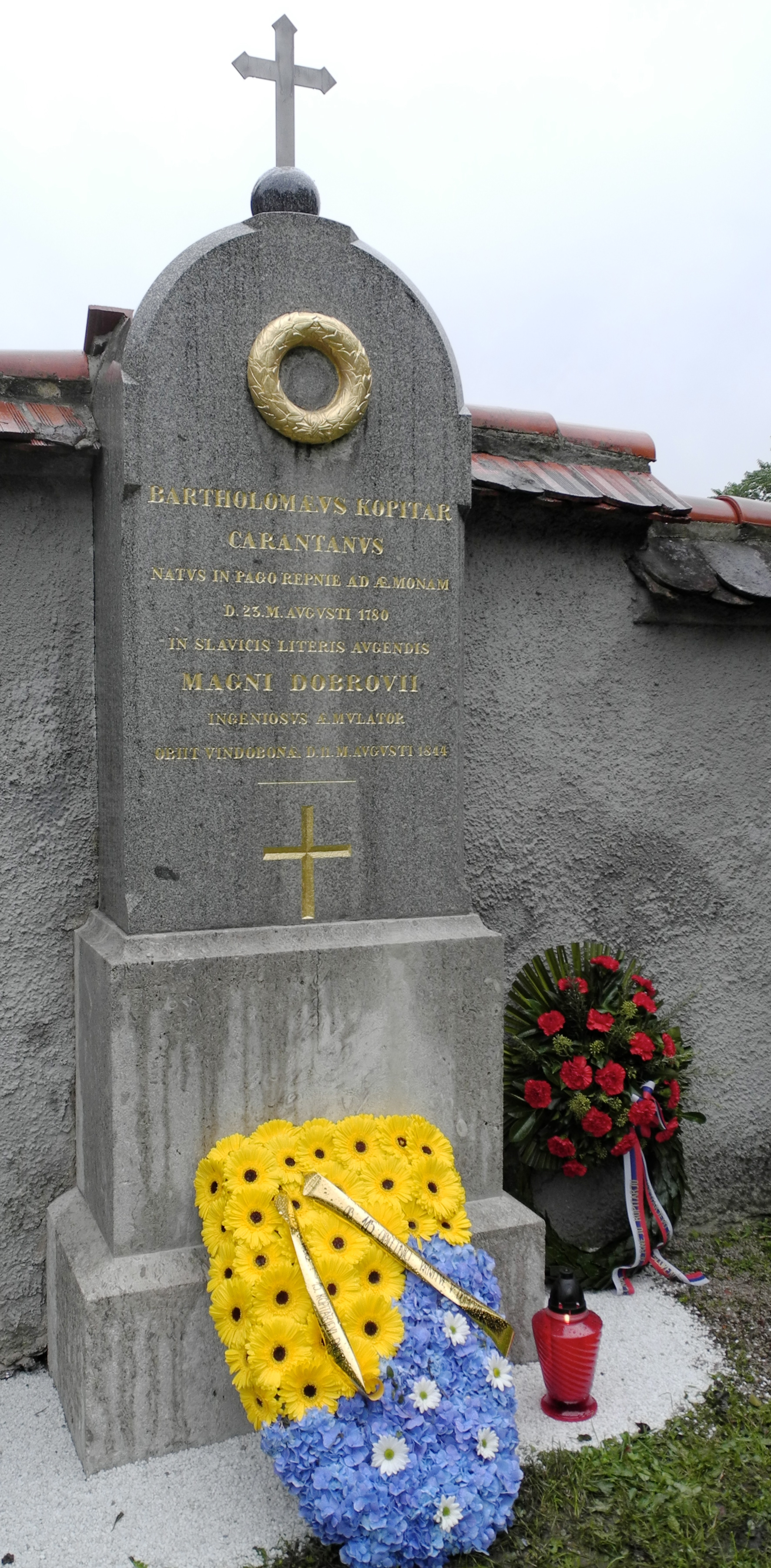 The grave of Jernej Kopitar on the 115th anniversary of his reburial from Vienna, Austria to Ljubljana, Slovenia. Inscription in Latin: BARTHOLOMAEVS KOPITAR CARANTANVS NATVS IN PAGO REPNIE AD AEMONAM D(IE) 23. M(ENSIS) AVGVSTI 1780 IN SLAVICIS LITERIS AVGENDIS MAGNI DOBROVII INGENIOSVS AEMVLATOR OBIIT VINDOBONAE D(IE) II. M(ENSIS) AVGVSTI 1844